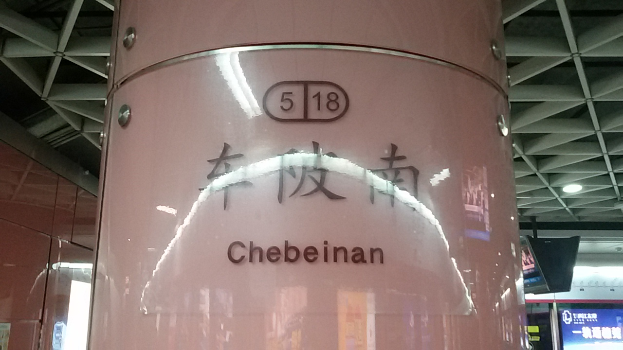 WORD on PILLAR for Chebeinan Station in Line 5